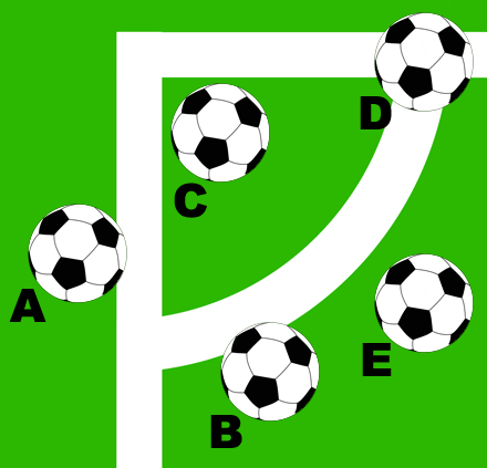 Diagram on correct and incorrect positions of the ball during a corner kick (association football).